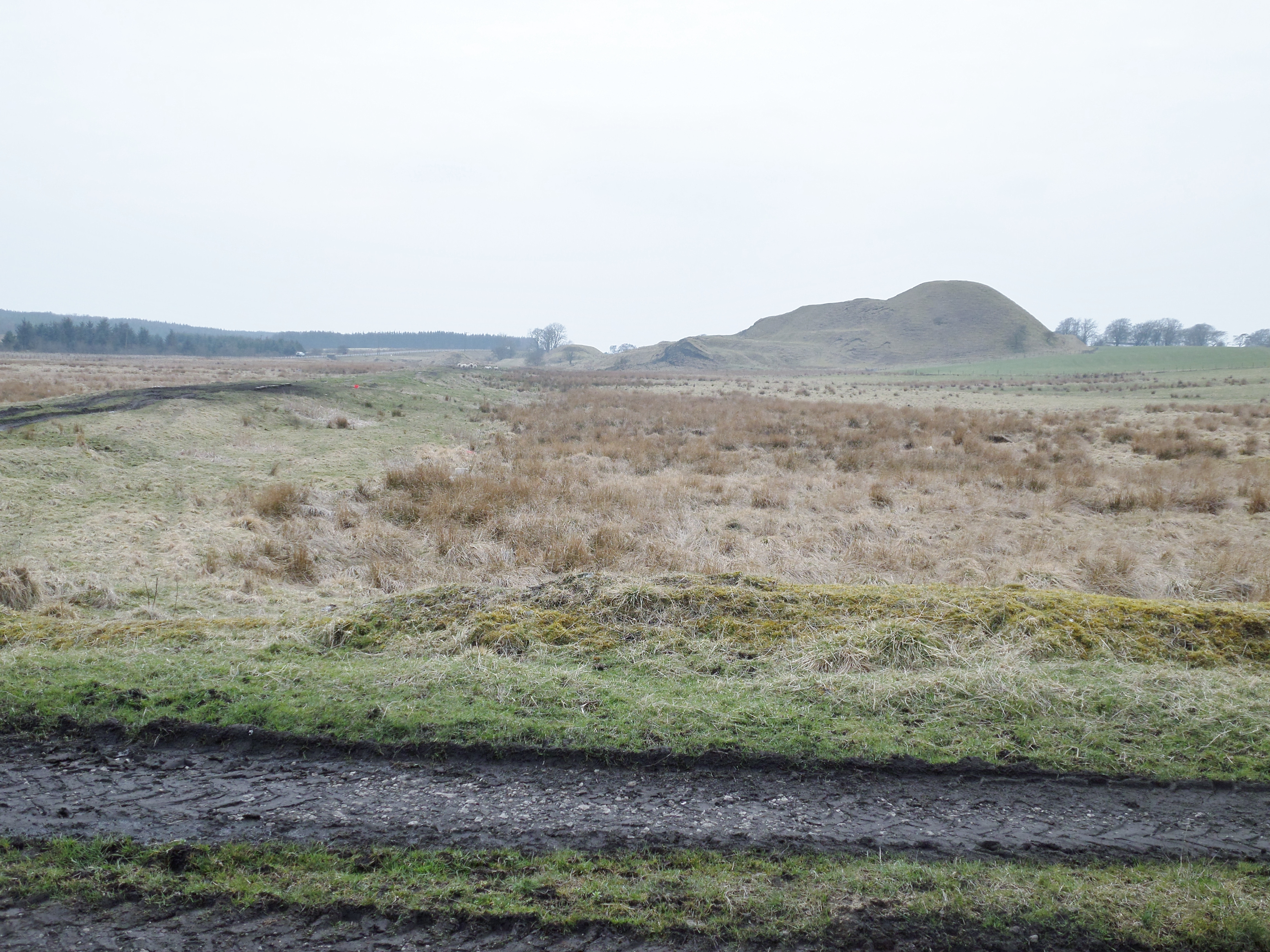 Headlesscross Railway Station site, North Lanarkshire, Scotland.